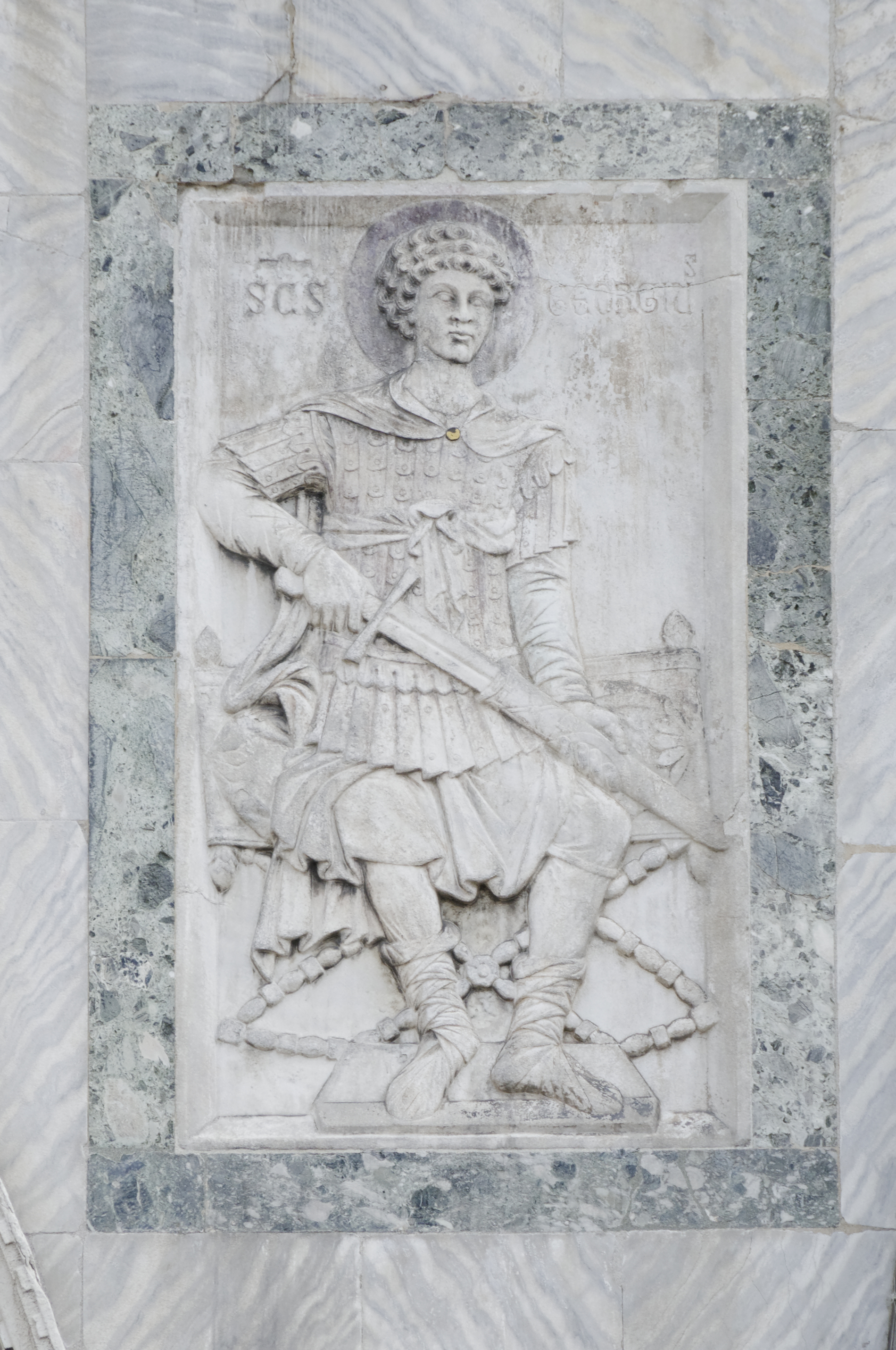 Relief of St George from the West façade of St Mark's basilica in Venice.